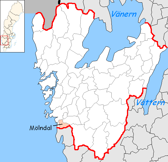 Mölndal Municipality in Västra Götaland County Designed by me. Mere outlines are a PD source from